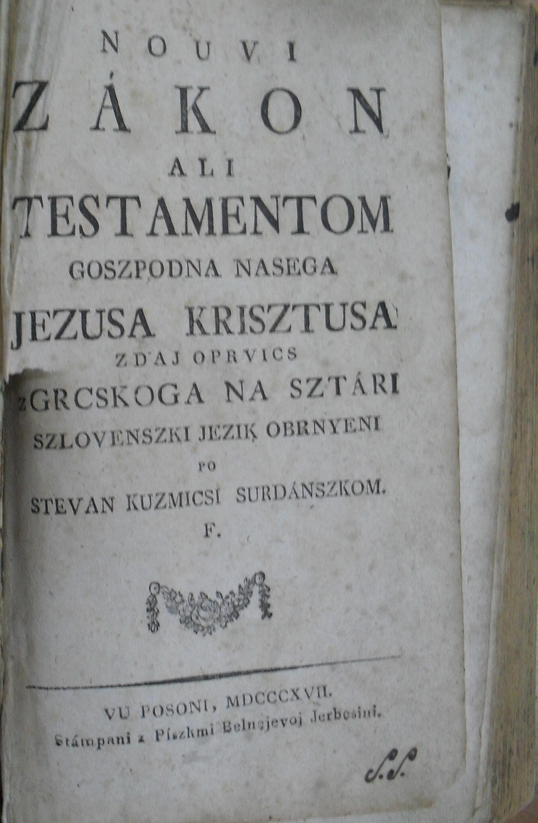 The Nouvi Zákon of István Küzmics in 1817. Rework of István Szmodis, priest of Bodonci and Ferenc Xaver Berke, priest of Puconci.